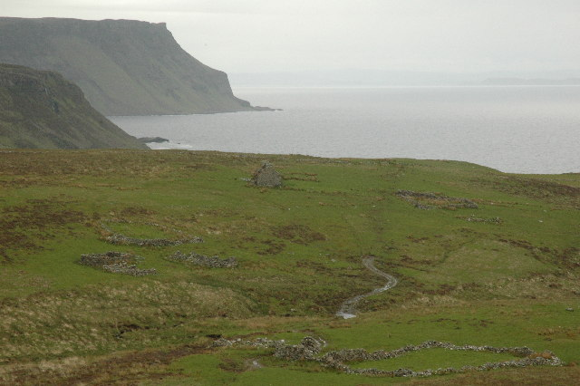 Shiaba. Shiaba was a crofting township on the Ross of Mull. The 130 residents were cleared to make way for sheep. These are the remains of their houses.